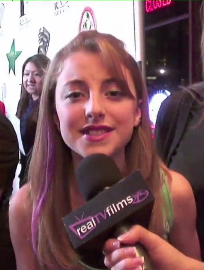 American actress Juliette Goglia interviewed by RealTVFilms.